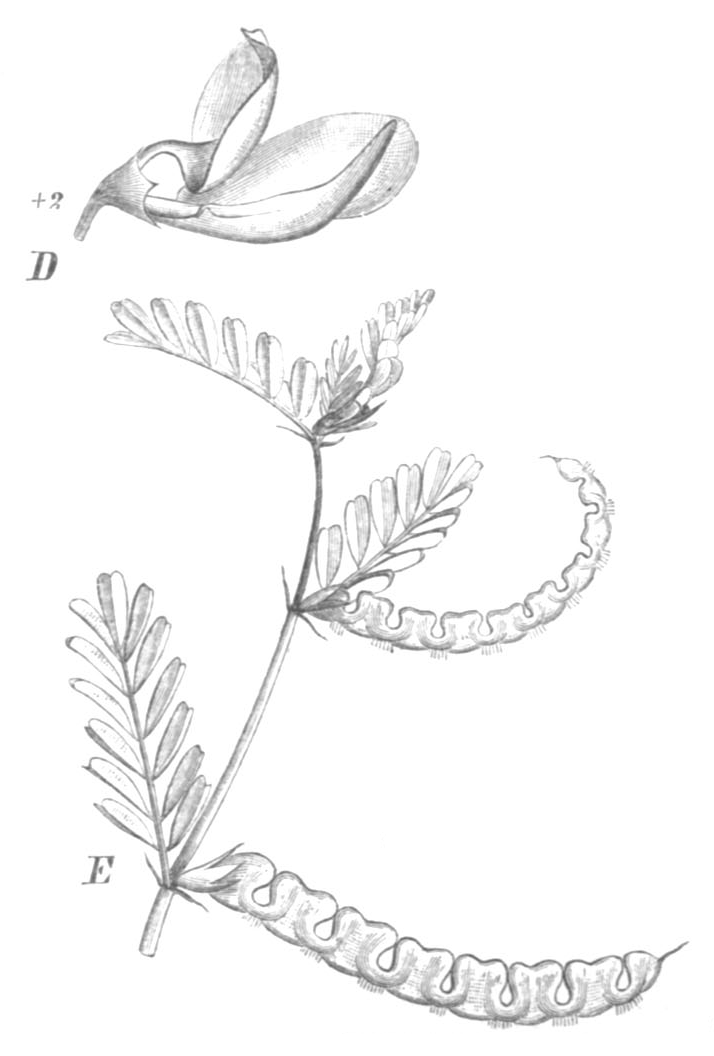 Illustration from book